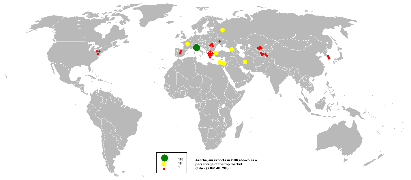 This bubble map shows the global distribution of Azerbaijani exports in 2006 as a percentage of the top market (Italy - $2,845,408,200). This map is consistent with incomplete set of data too as long as the top producer is known. It resolves the accessibility issues faced by colour-coded maps that may not be properly rendered in old computer screens. Data was extracted on 30th August 2007 from Based on :Image:BlankMap-World.png